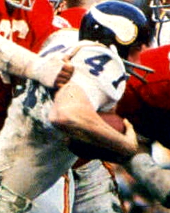 Minnesota Vikings running back Dave Osborn rushing the ball against the Kansas City Chiefs in Super Bowl IV.